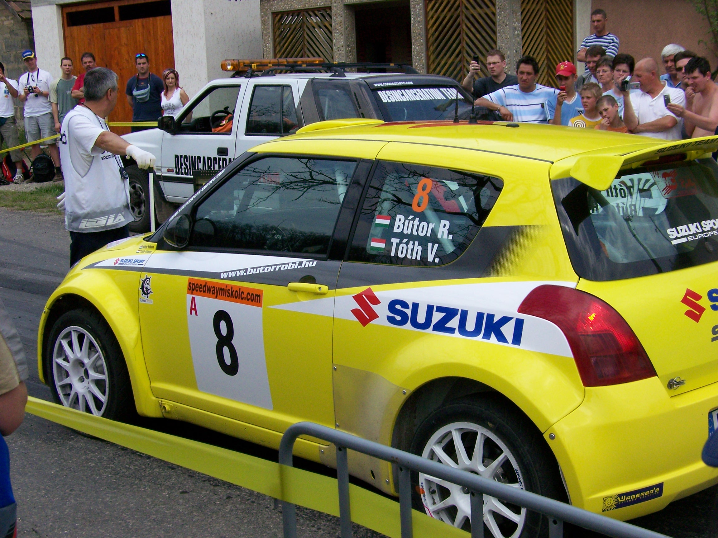 2007 Miskolc Rally (Hungary) Bútor Róbert-Suzuki Swift S1600